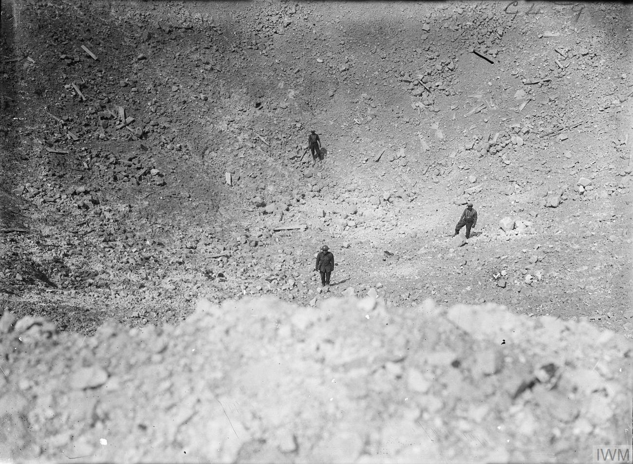 IWM caption : Interior of a mine crater at La Boisselle.